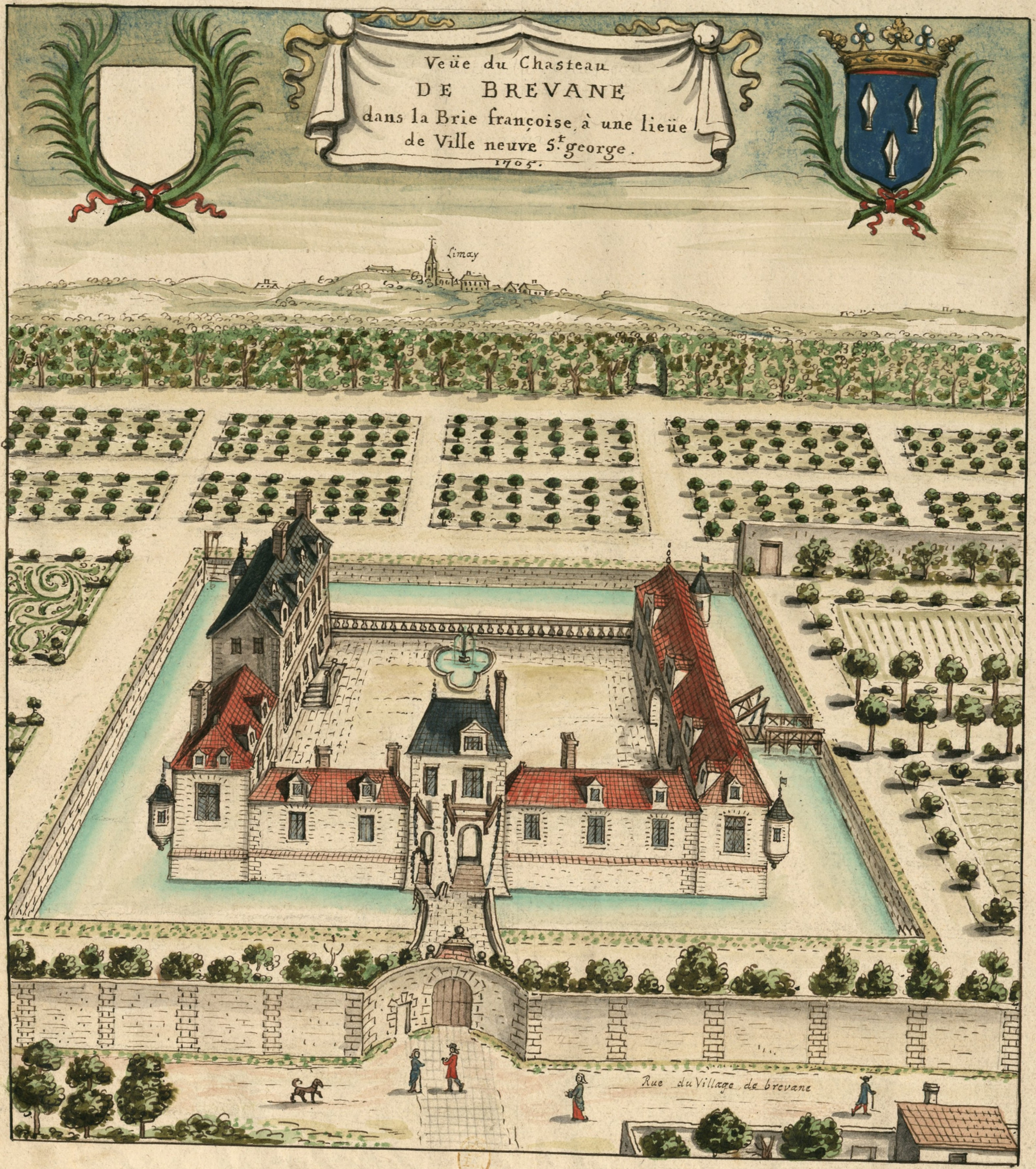 The Brevannes (France) castle in 1705; drawing by Louis Boudan.